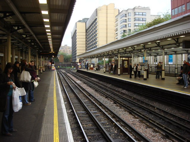 High Street Kensington tube station, platform 1 Platform 1 is used for anti-clockwise Circle Line and westbound District Line line trains towards Gloucester Road and Earl's Court, respectively.